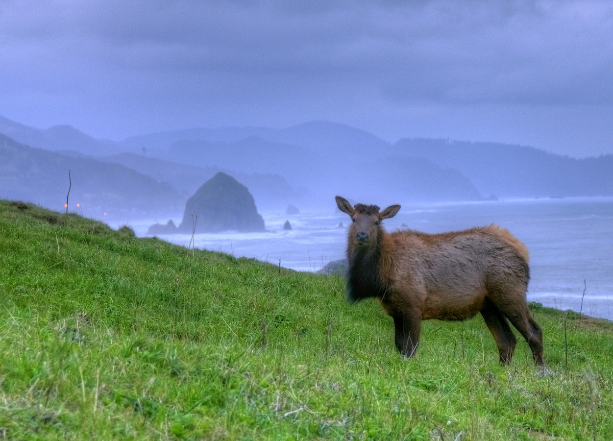 Cow elk near haystack rock, Cannon Beach, OR.